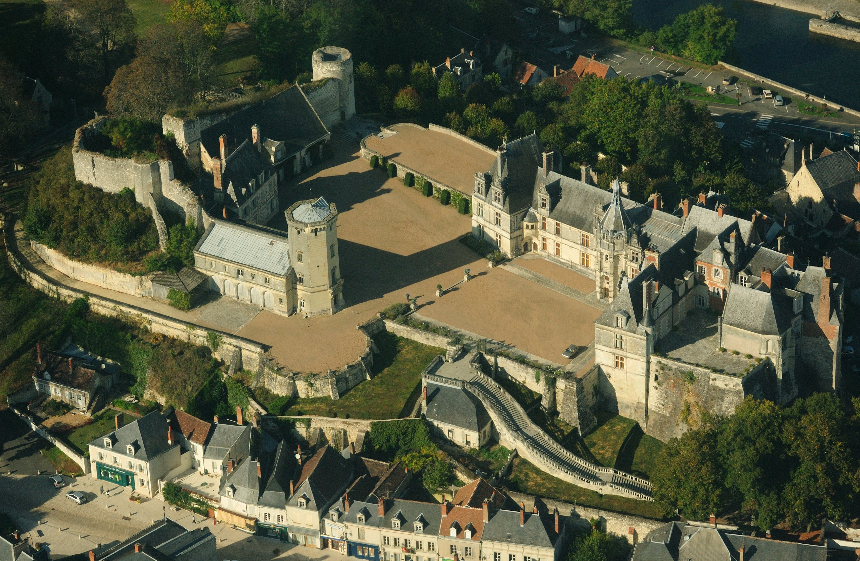 Aerial view of the castle of Saint-Aignan (Loir-et-Cher department, France). Nikon D60 f=66mm f/9 at 1/1250s ISO 400. Processed using Nikon ViewNX 1.3.0 and GIMP 2.6.6.